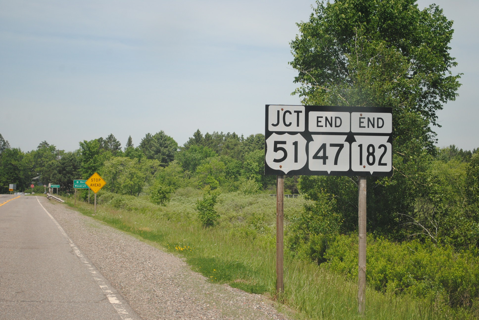 Image of highway shields at the northern terminus of Wisconsin Highway 47 and Wisconsin Highway 182 at U.S. Route 51 at Manitowish.